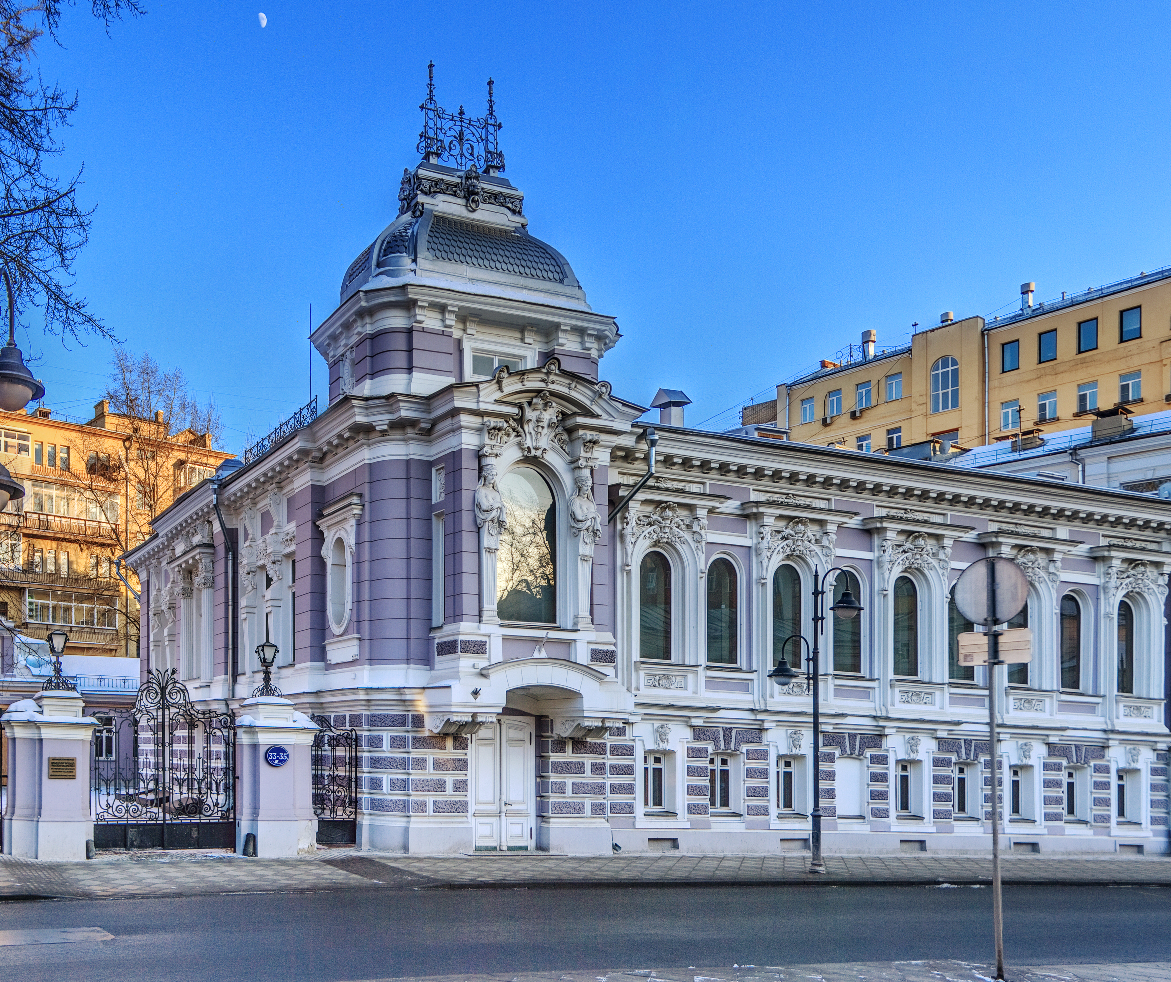 Korobkov mansion: Pyatnitskaya street 33-35, Moscow